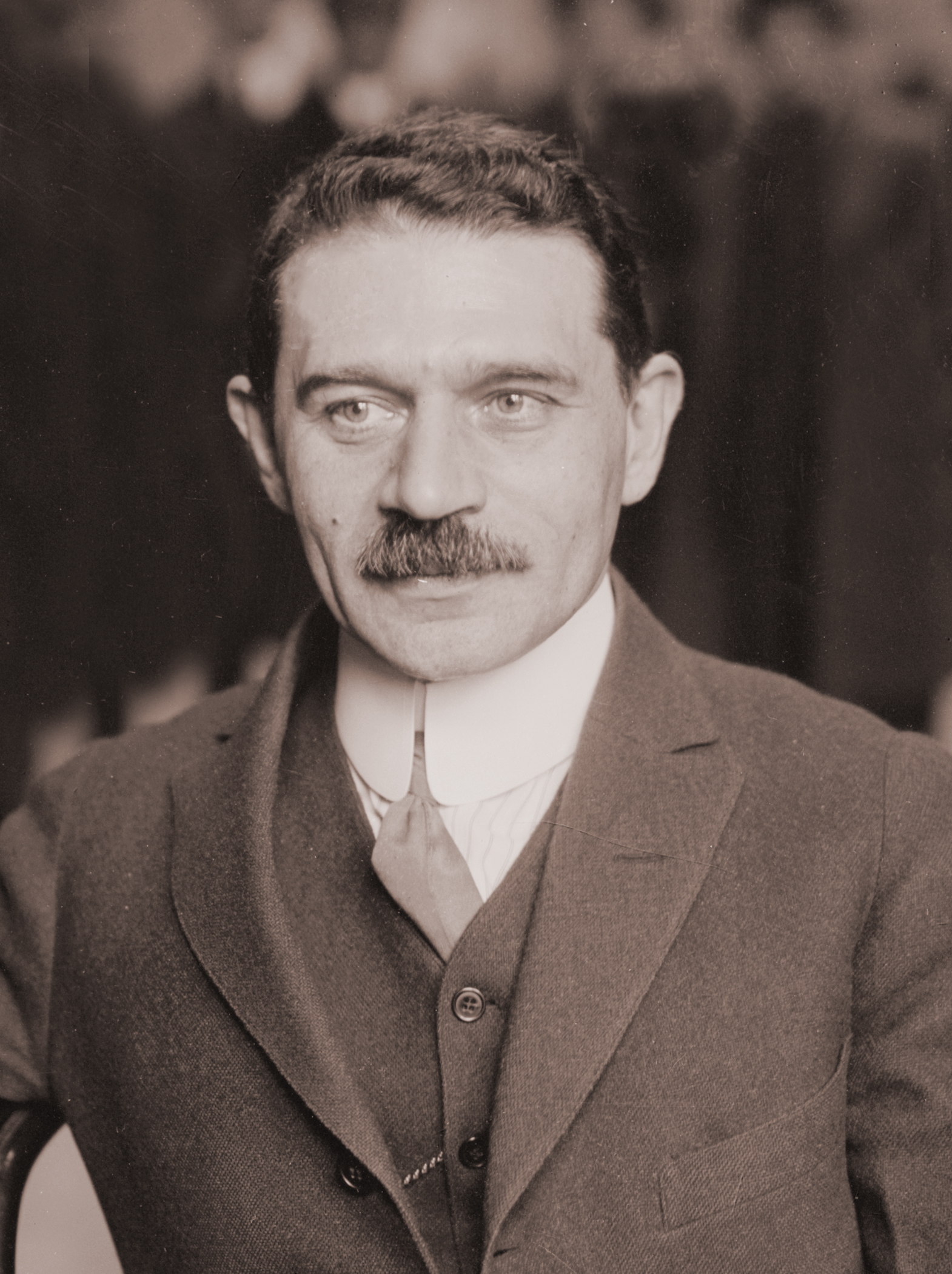 Morris Hillquit, American Socialist leader July 25, 1924 Bain News Service original glass negative, digitized by the Library of Congress LoC: "RIGHTS INFORMATION: No known restrictions on publication." CALL NUMBER: LC-B2- 3369-1[P&P]